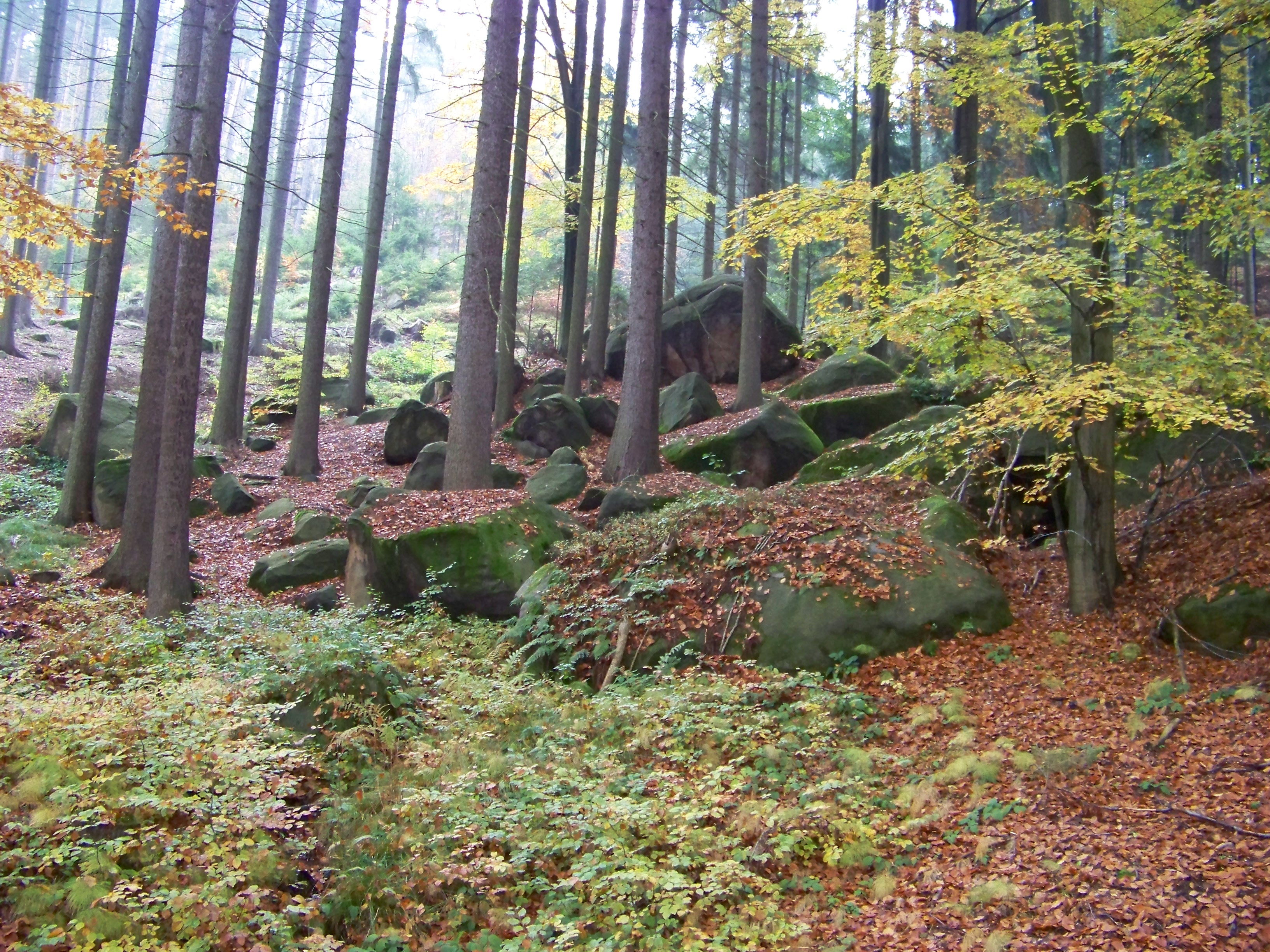 Koberovy-Besedice, Jablonec nad Nisou District, Liberec Region, the Czech Republic. The south-west side of Sokol hill.